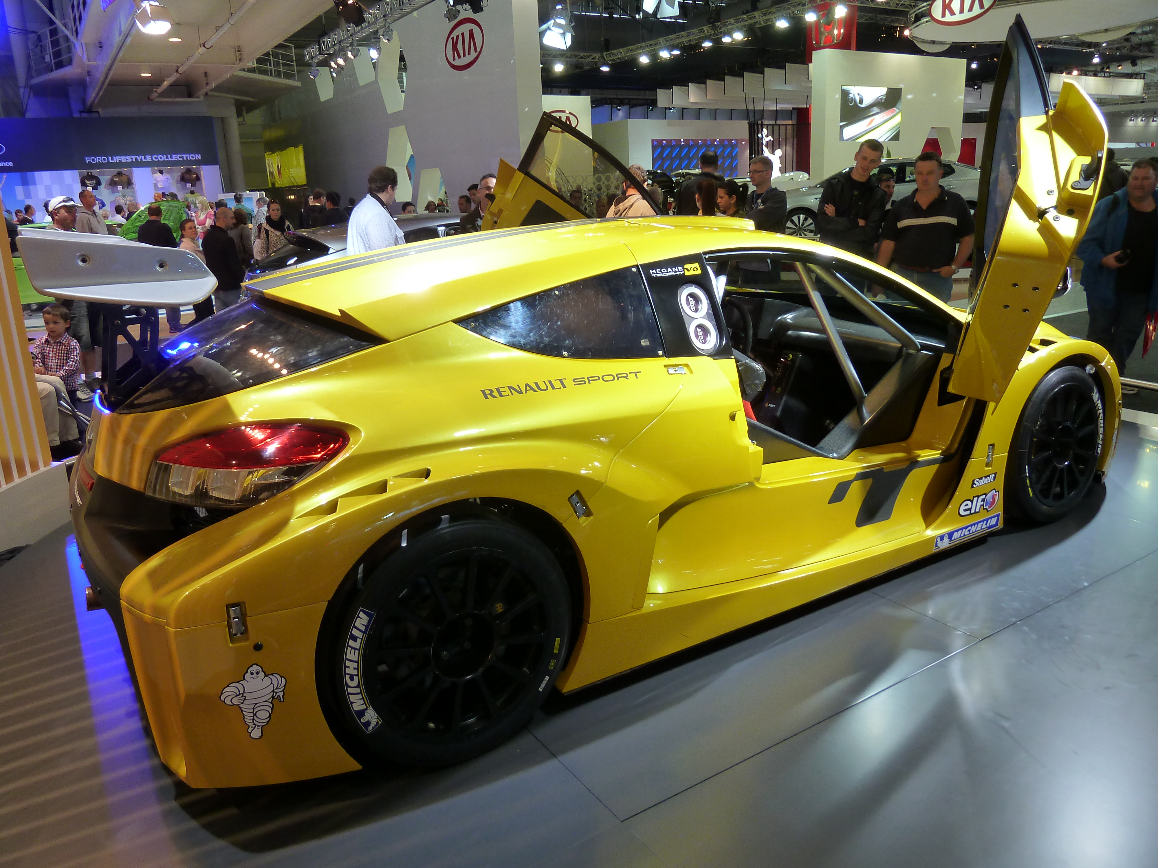 Renault Mégane Trophy coupe. Photographed at the 2010 Australian International Motor Show, Sydney, New South Wales, Australia.